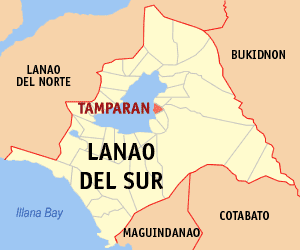 Map of the Lanao del Sur showing the location of Tamparan